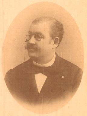 Portrait of Edmond Denis de Manne